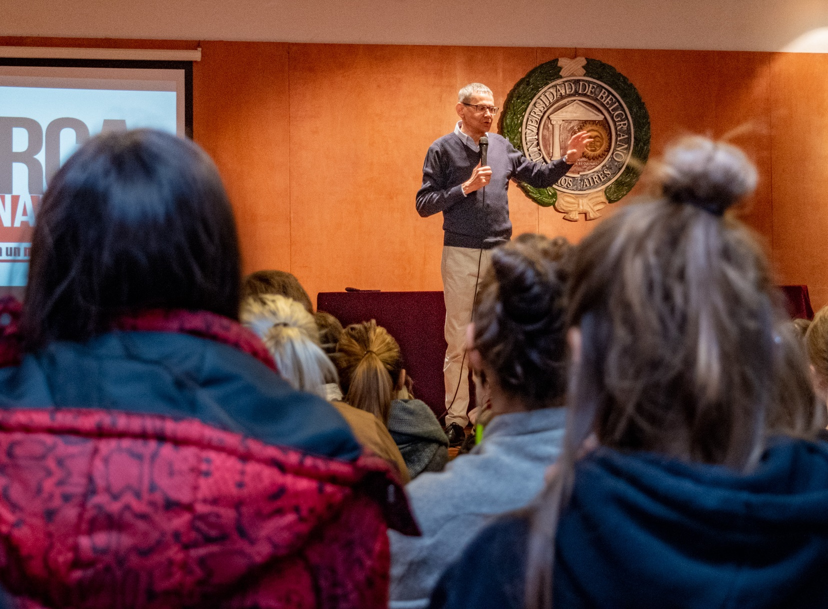 Daniel Colombo